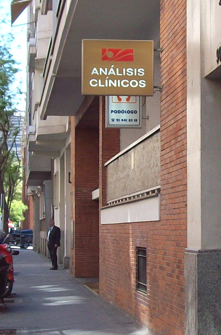 Exterior of the building at 92 Calle de Zurbano (street) in Chamberí district in Madrid (Spain). In it, there is a laboratory property of José Luis Merino Batres, a person implicated in the Operación Puerto doping case.